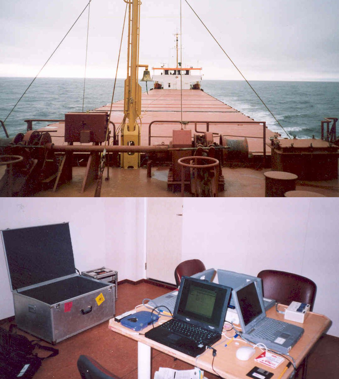 COHP Onboard Field Research